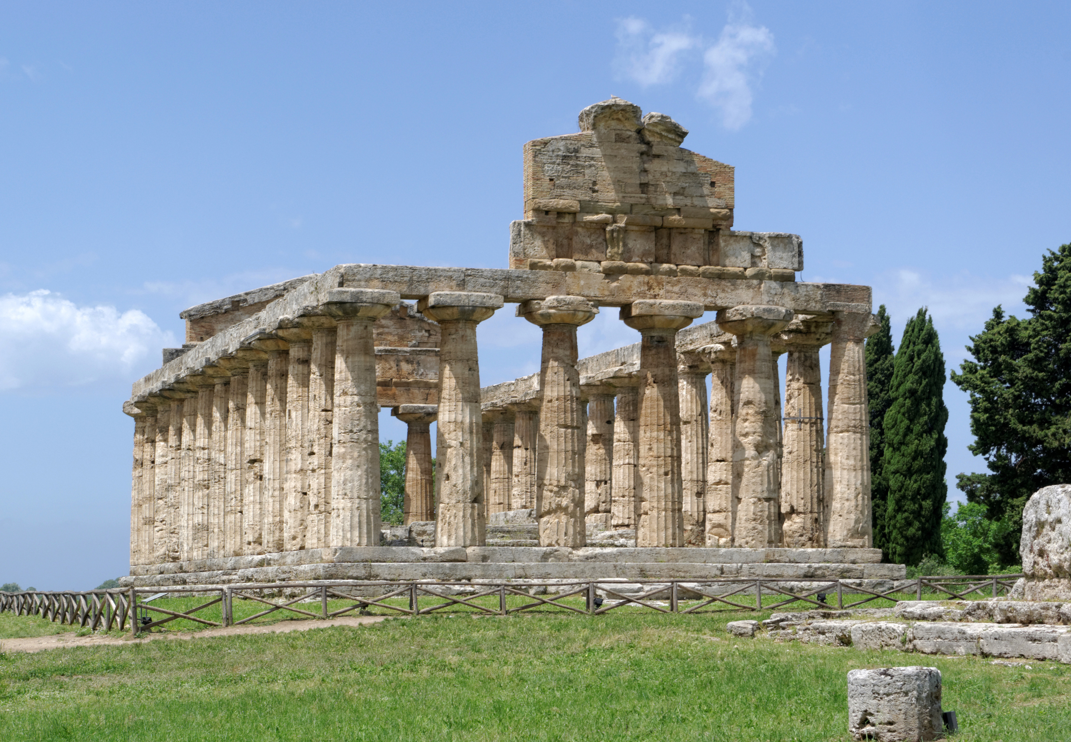 Italy, Paestum, Temple of Athena